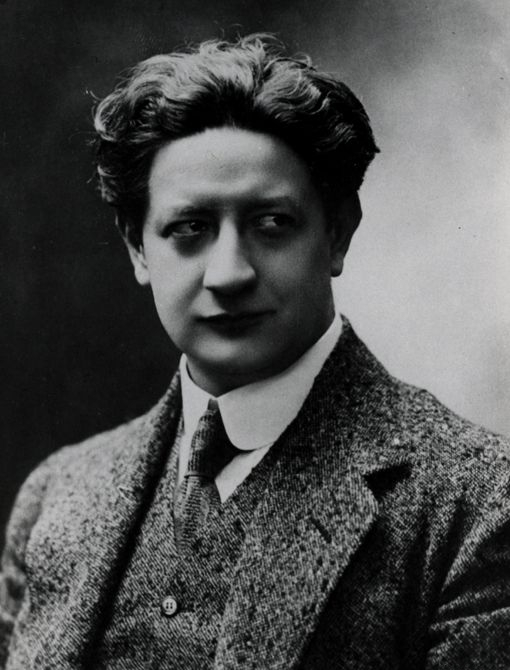 Italian dramatic baritone Domenico Viglione Borghese